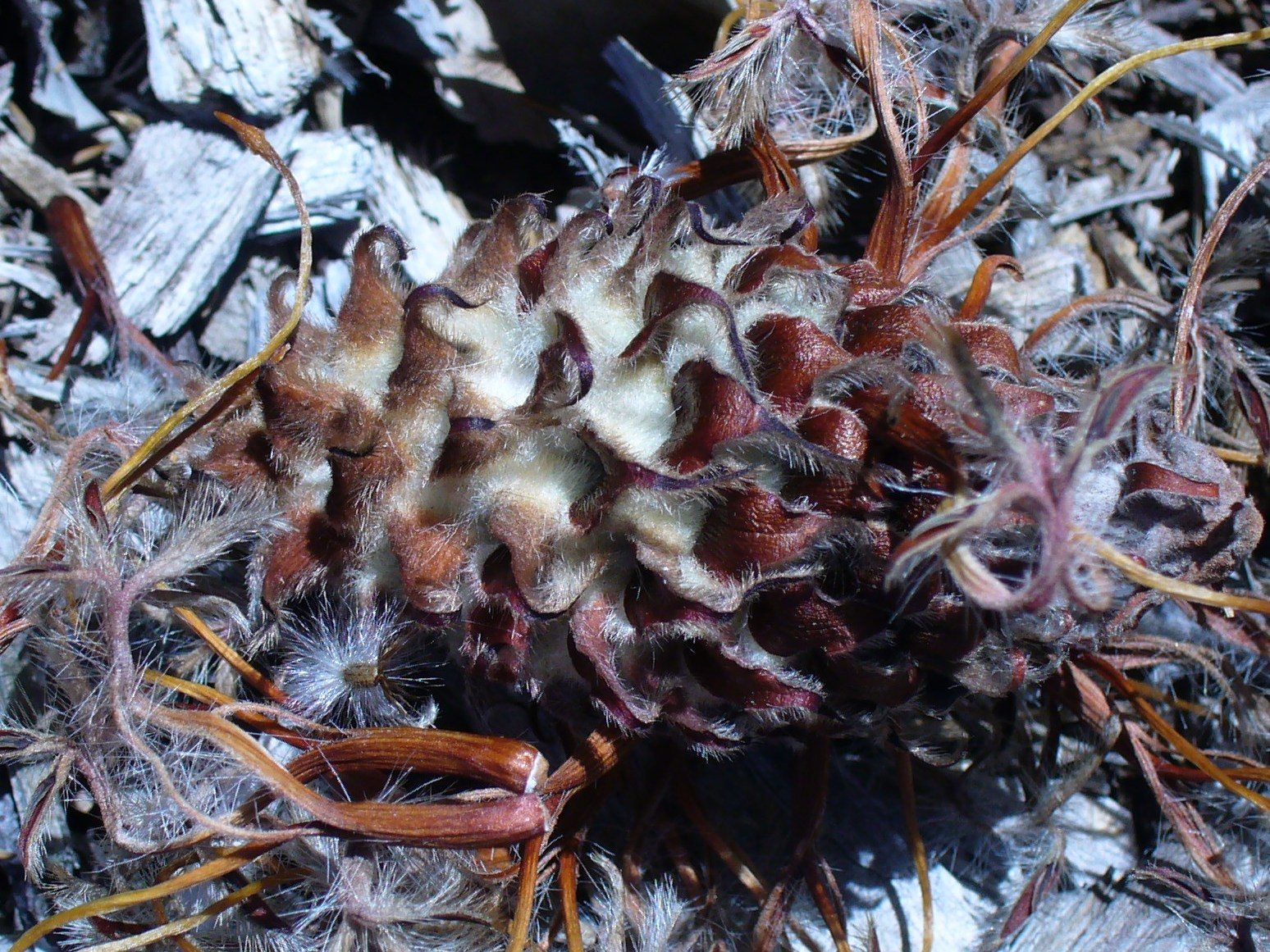 Leucospermum glabrum, seed head